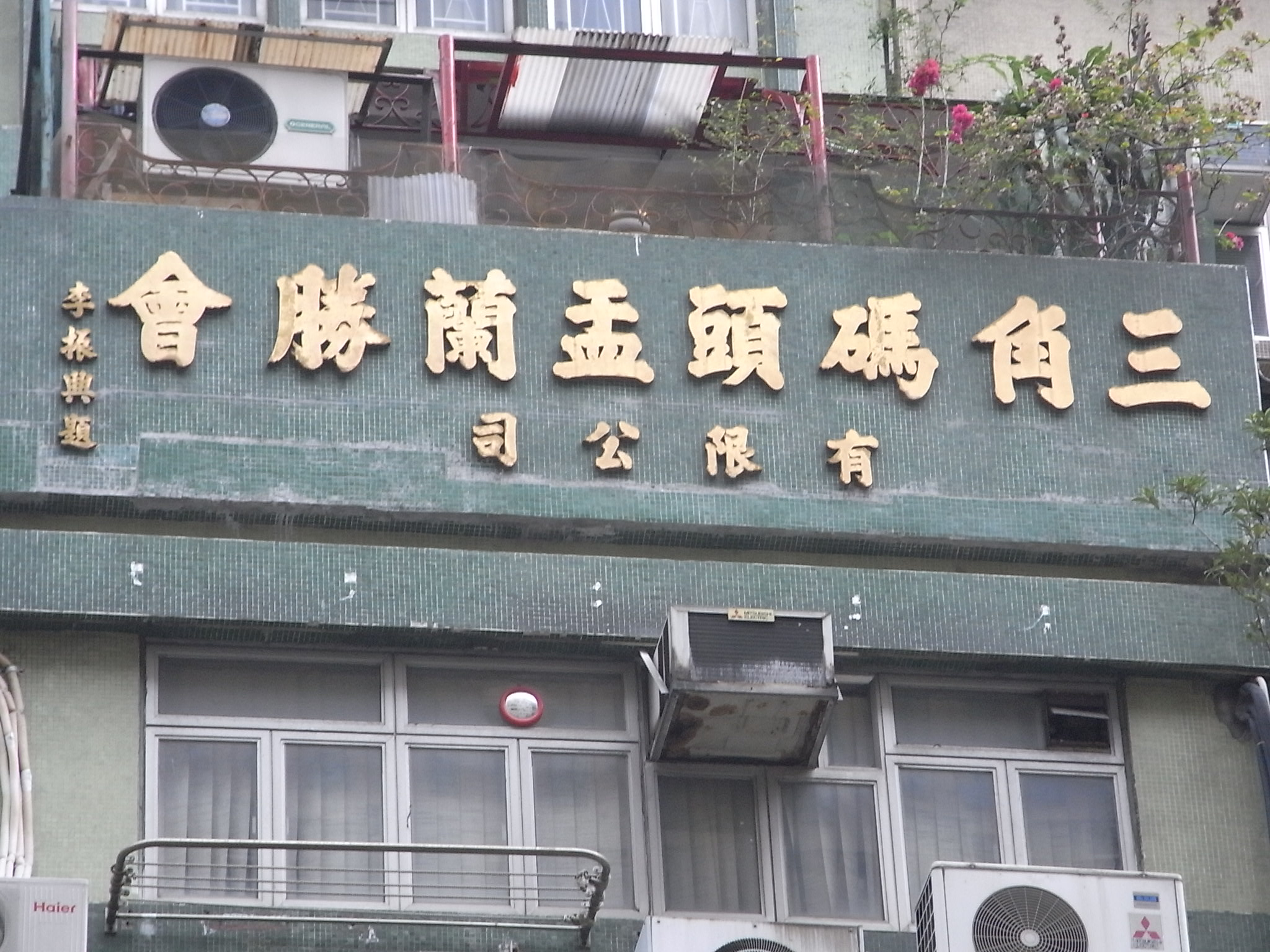 香港島西環三角碼頭